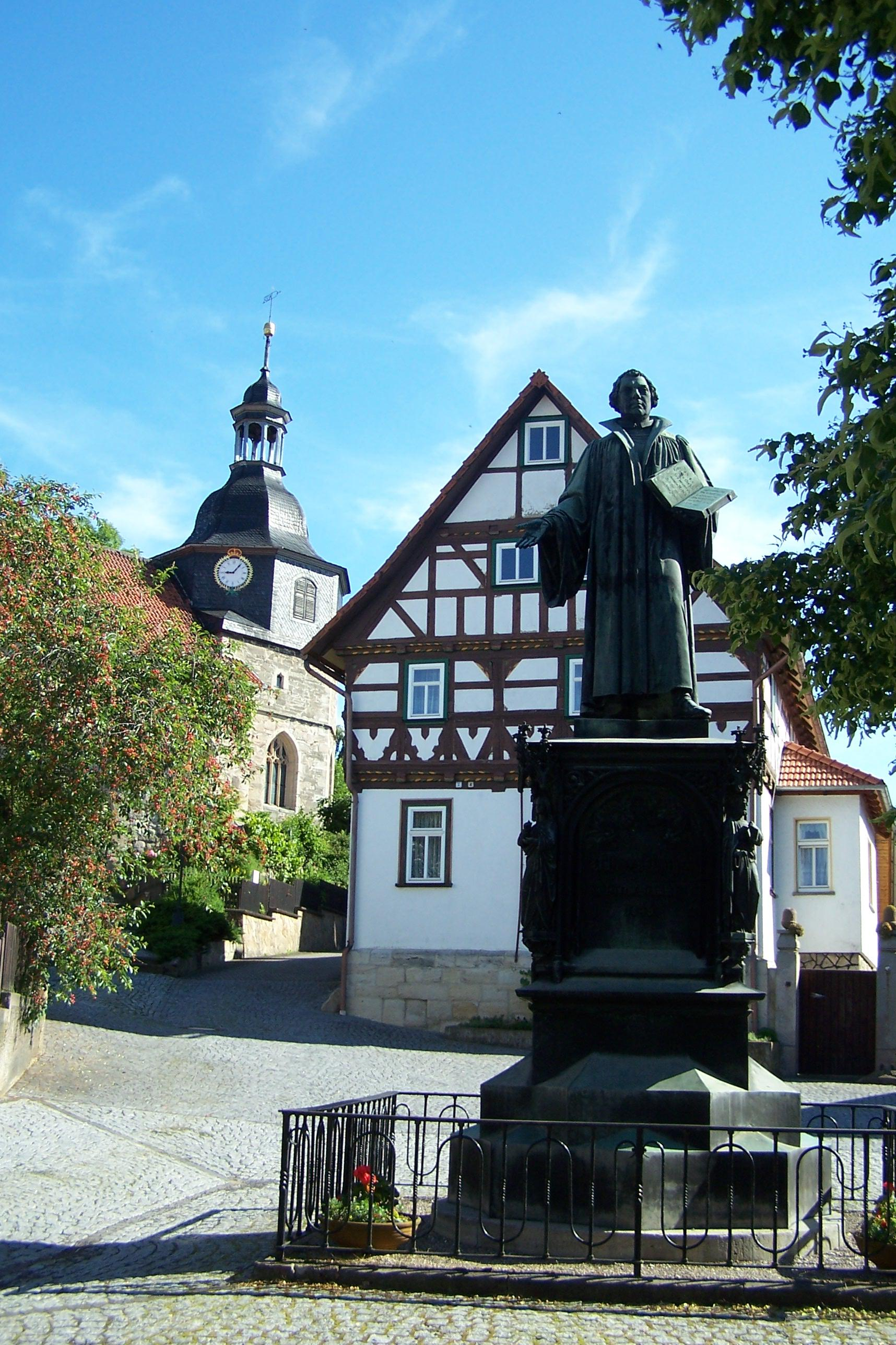 The Luther monument in Möhra.